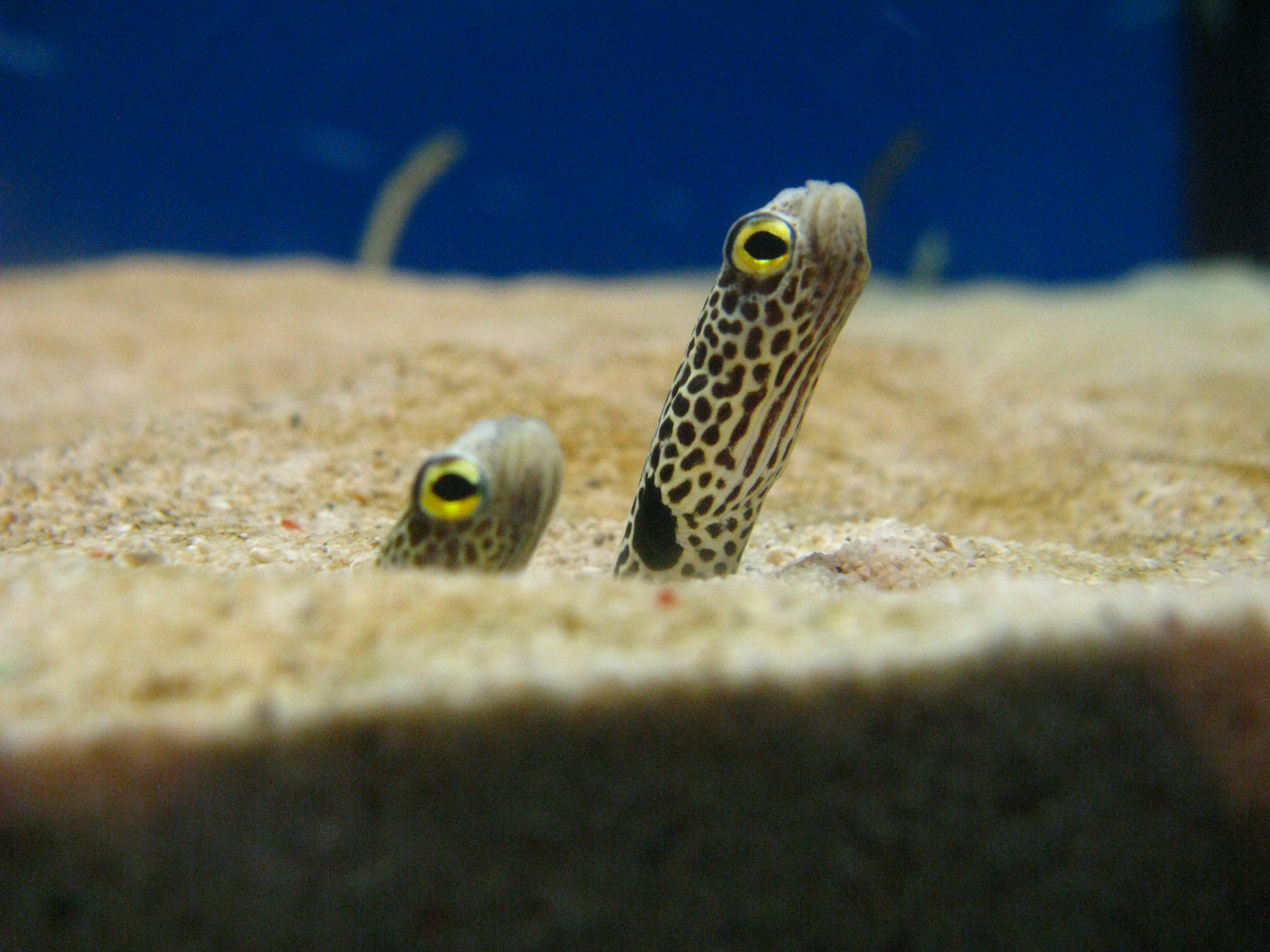 Scientific name Heteroconger hassi